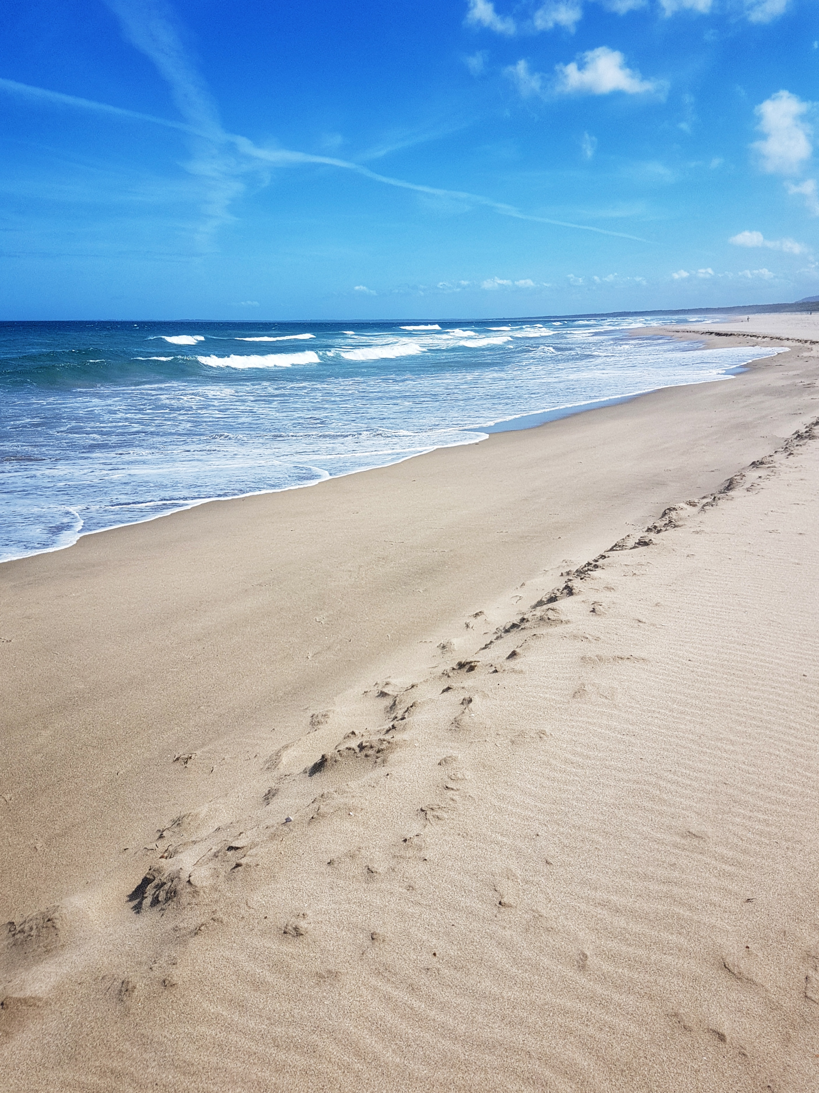 Fine white sands of Seven Mile Beach National Park, New South Wales, Australia.